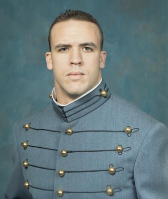 Photograph of Caleb Campbell as a Cadet at the United States Military Academy at West Point, New York.